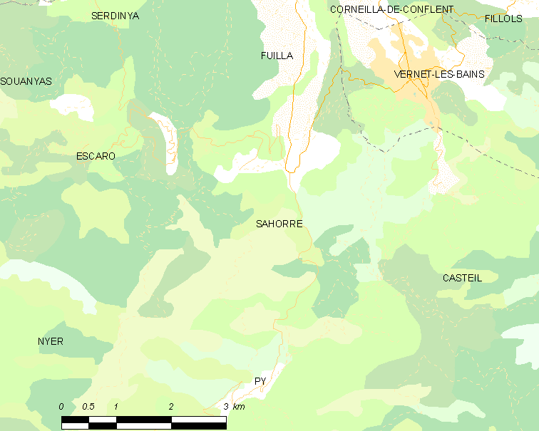 Map of French municipality